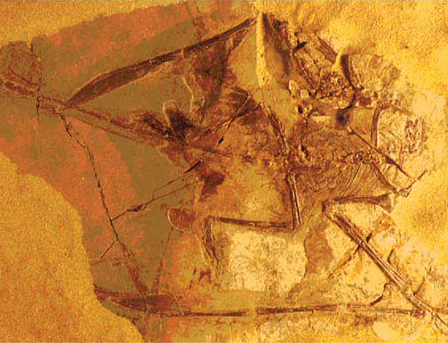 Sordes pilosus Sharov, 1971, PIN 2585/3, Karatau Formation (Upper Jurassic), Kazakhstan.